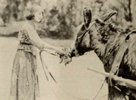 Still from the American western film The Only Road (1918) with Viola Dana, on page 42 of the June 29, 1918 Exhibitors Herald.